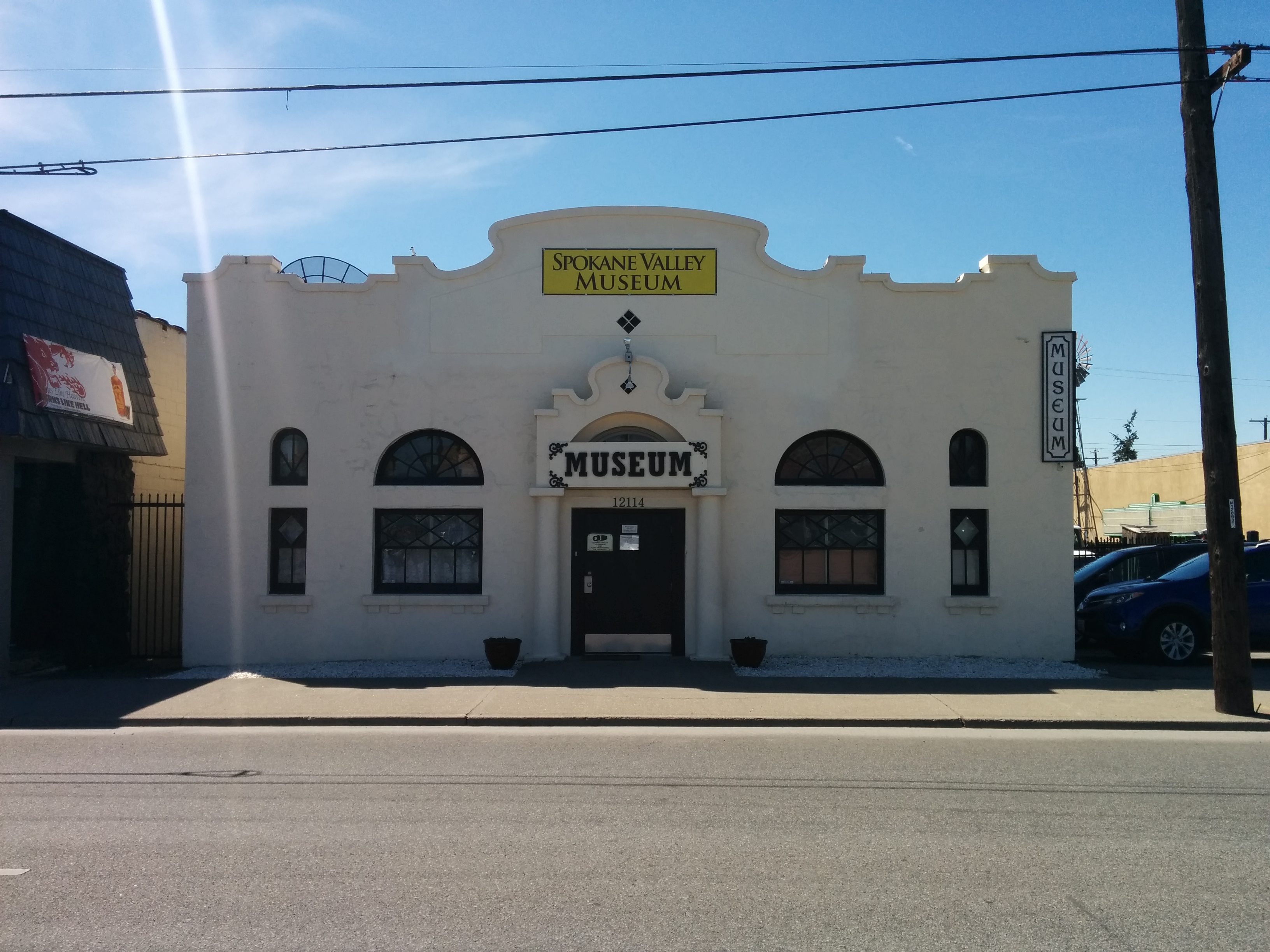 Opportunity Township Hall now being used as the Spokane Valley Heritage Museum